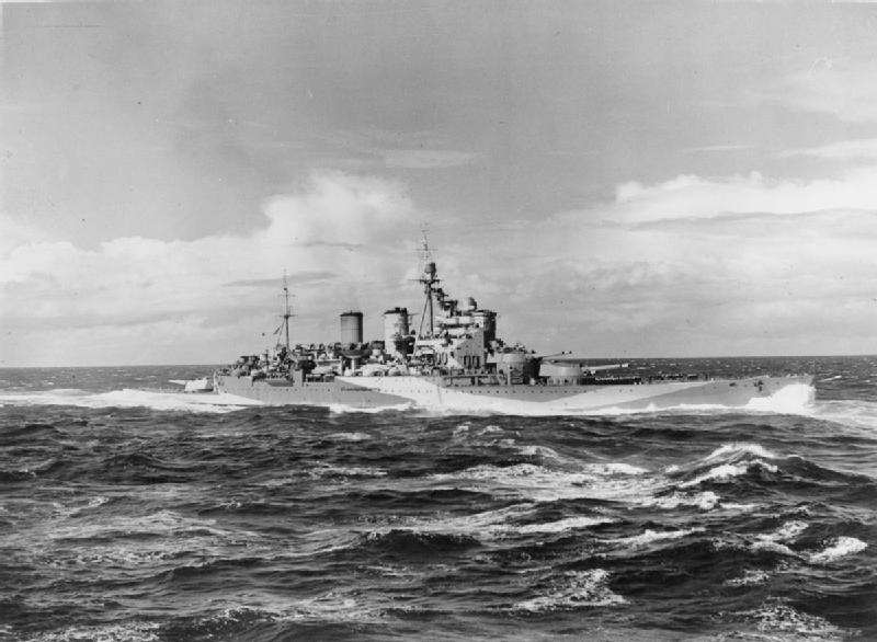 The Royal Navy during the Second World War HMS RENOWN underway off Scapa Flow during her work-up period prior to sailing for the Far East.